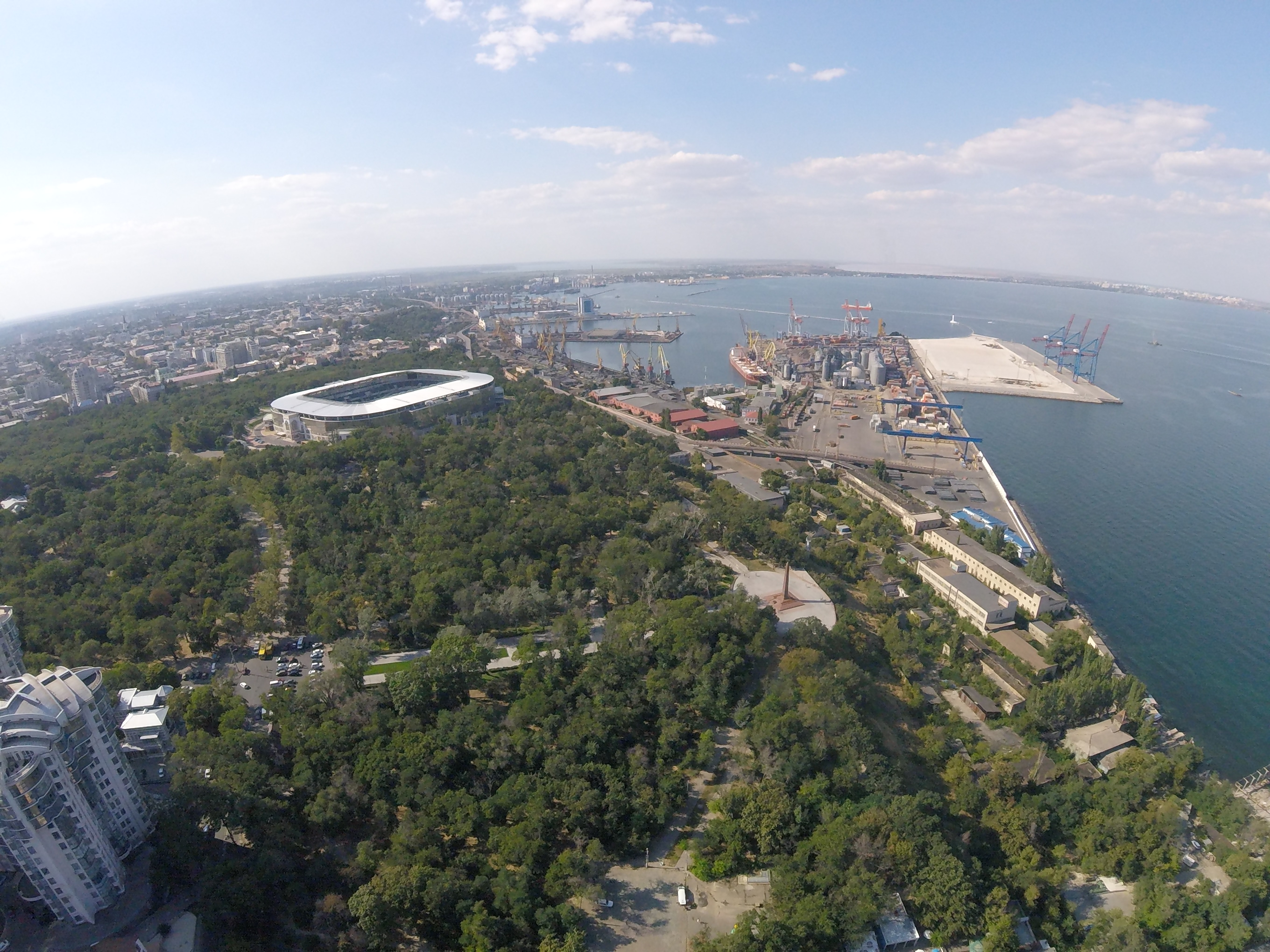 Odessa seaport